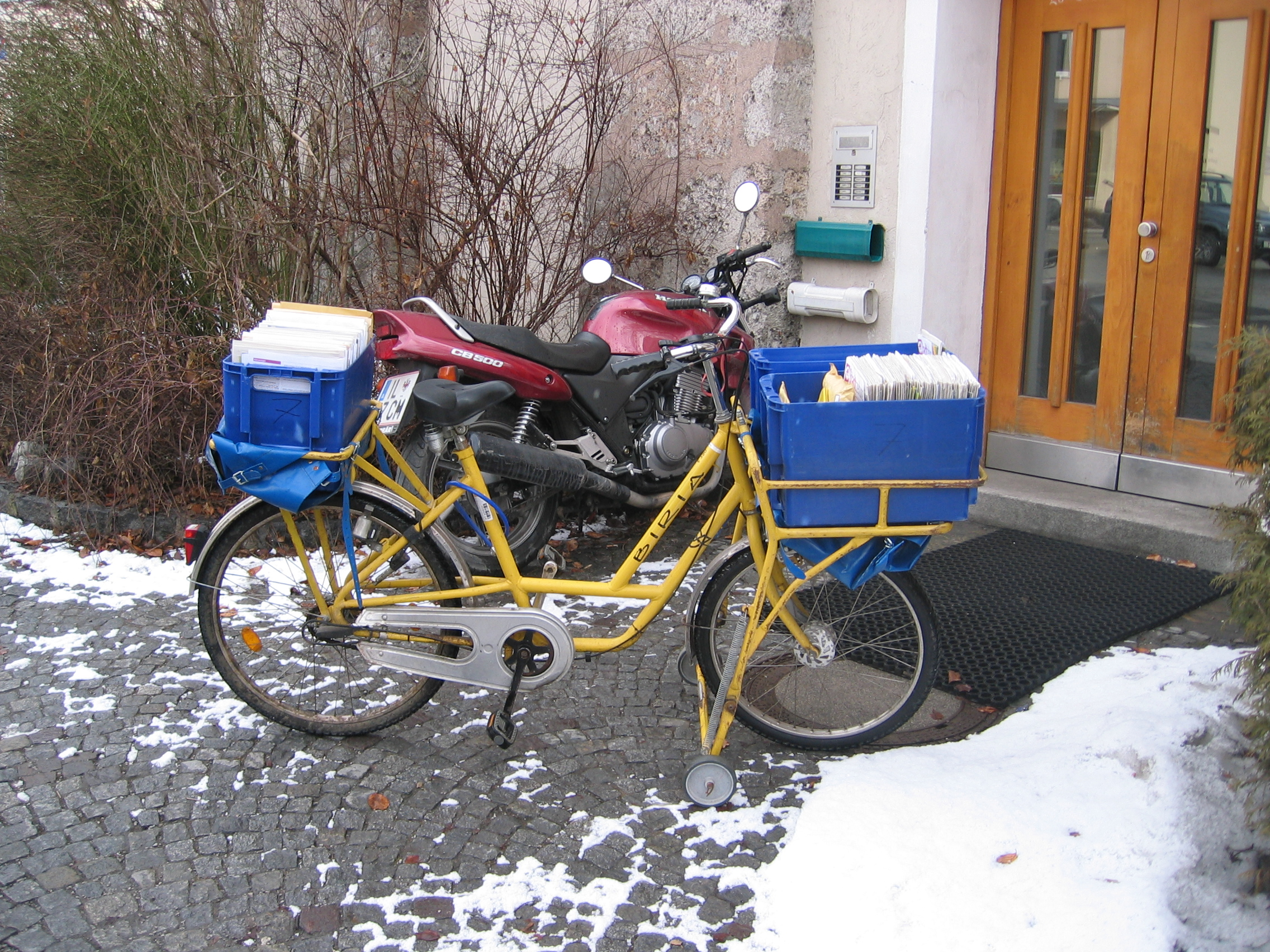 Australian Post Bike of Hall Post. Hall is a suburb of Canberra, Australian Capital Territory.